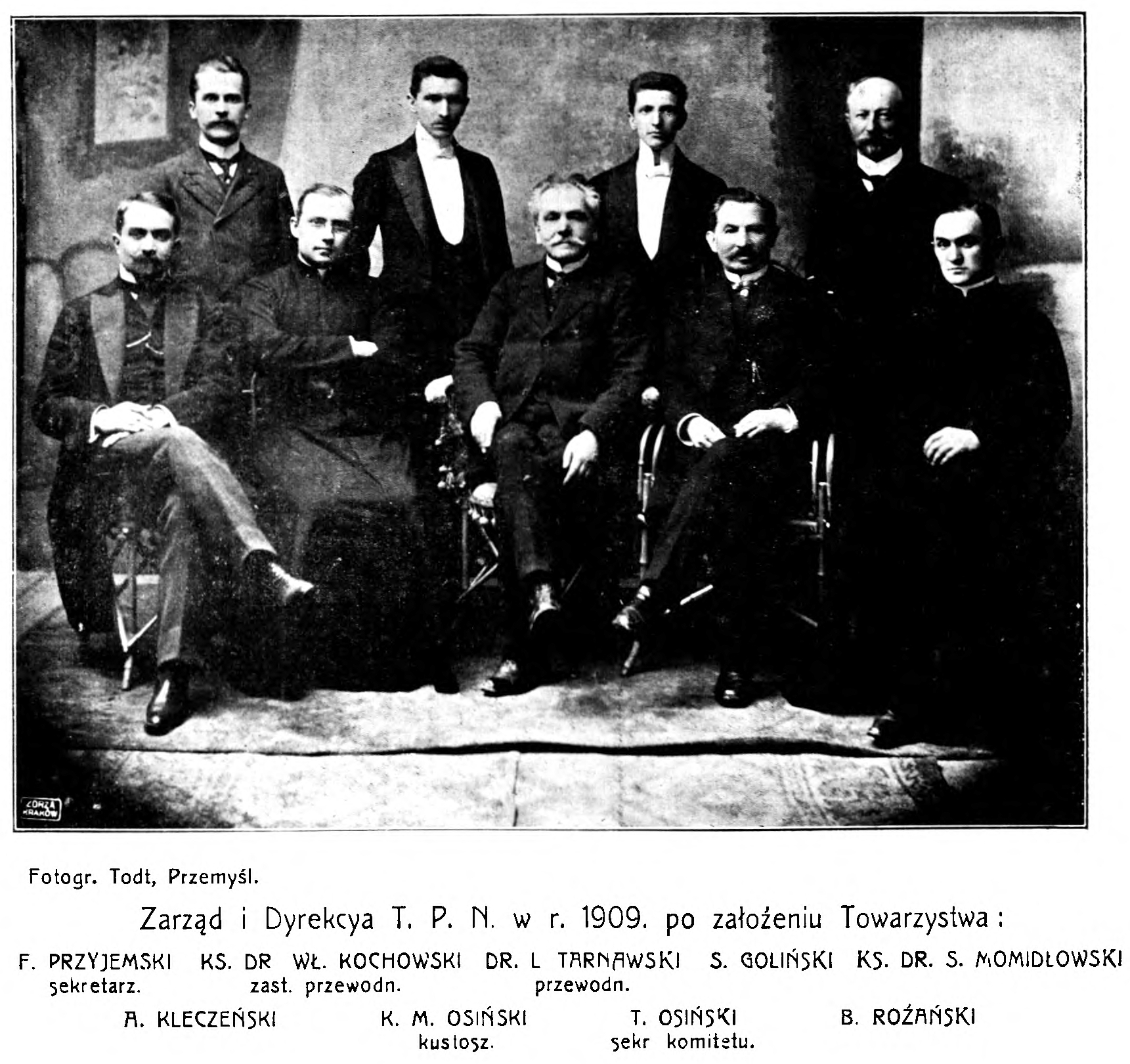 TPN management 1909